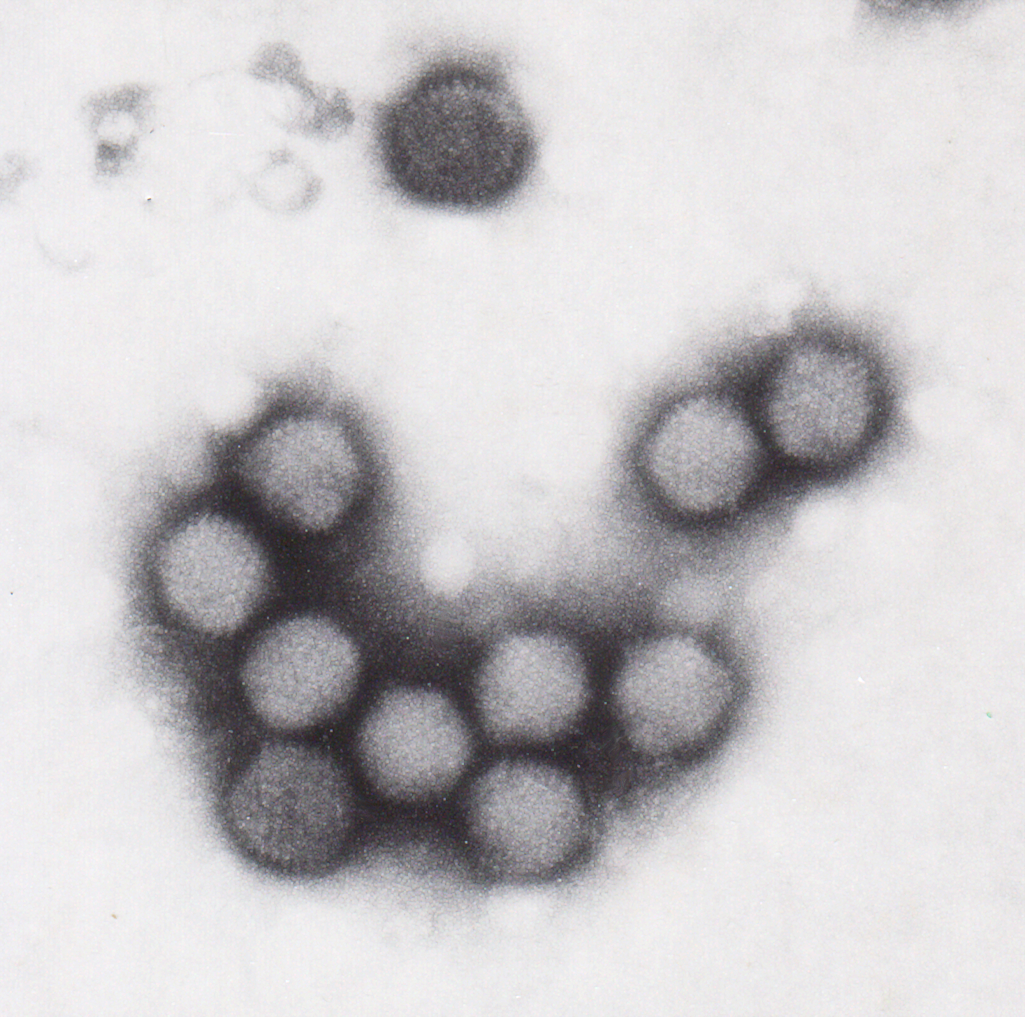 Human enteric adenovirues. Electron micrograph of negatively-stained viruses.